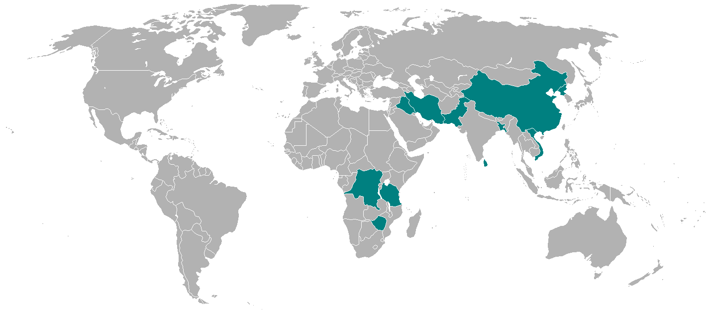 Operators of the Type 63 APC.